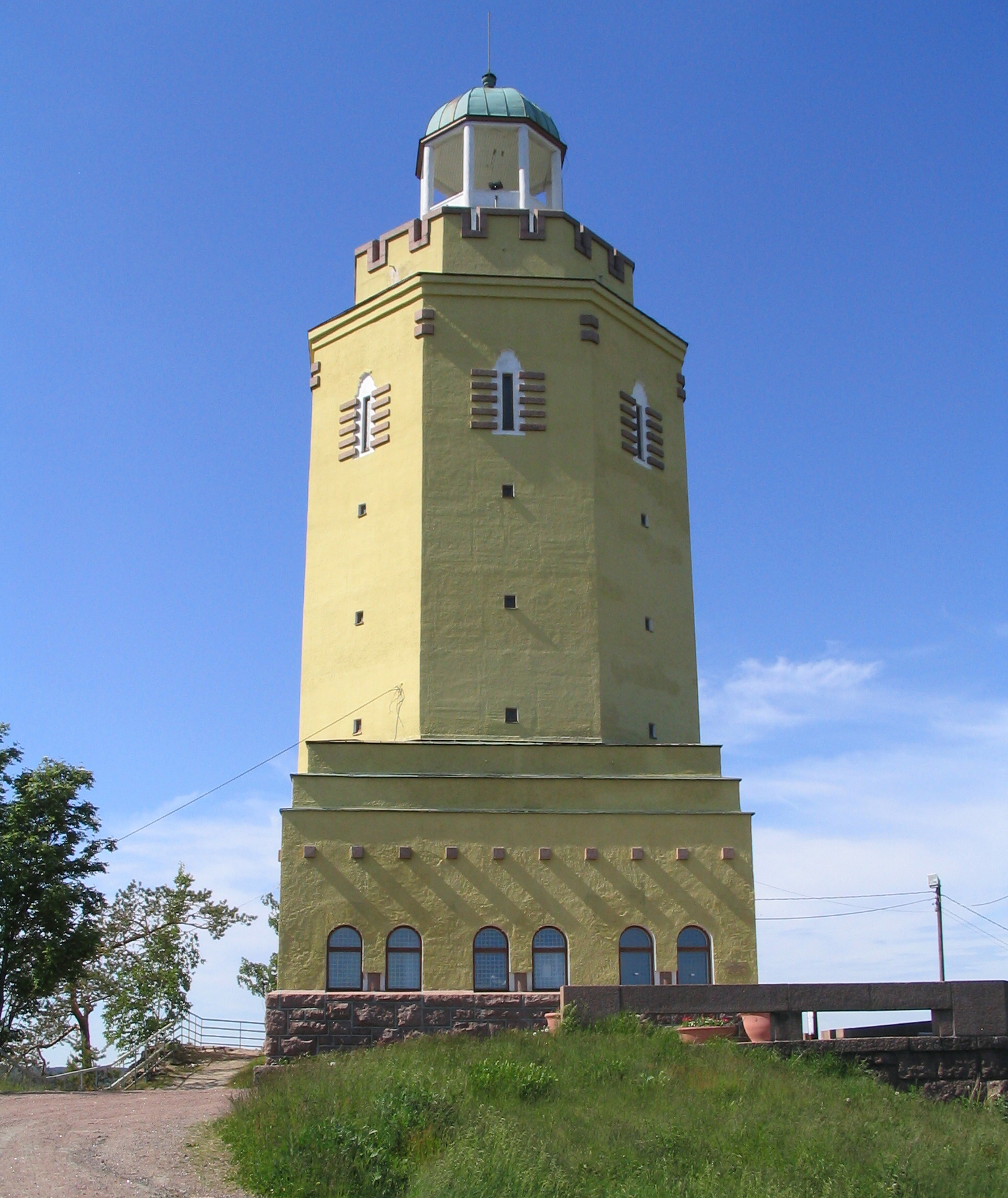 Haukkavuori observation tower in Kotka, Finland